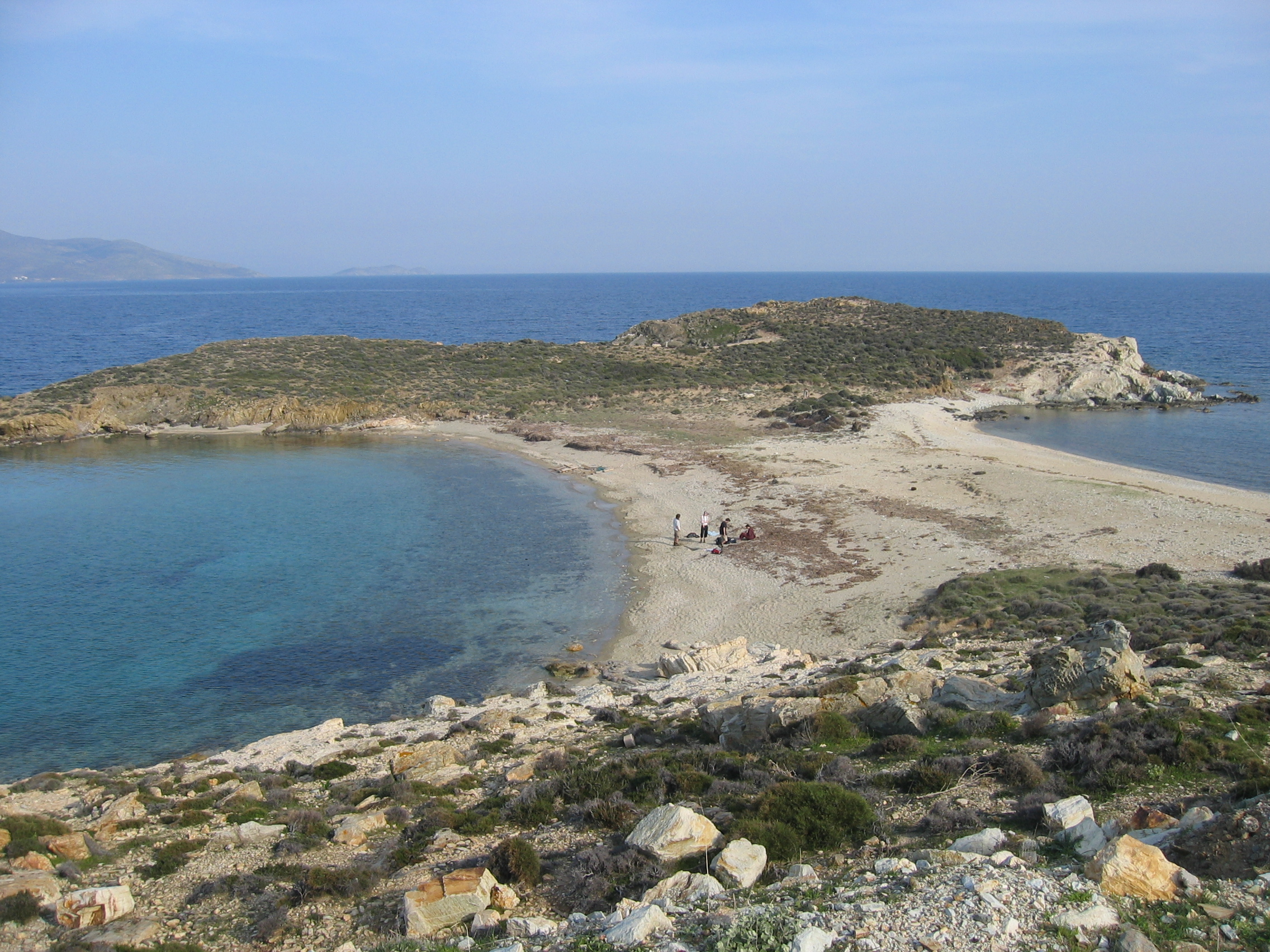 Tombolo on cape Paximadhi in the south of Euboea, Greece. Picture by Tim Bekaert (March 25, 2005).